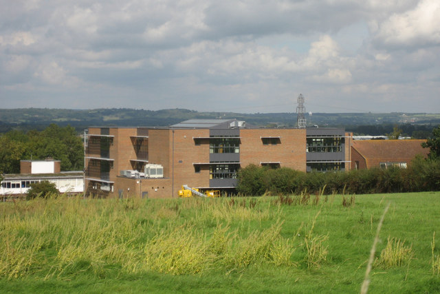 Mascalls School, Paddock Wood New extension to the 6th form block, built 2005.